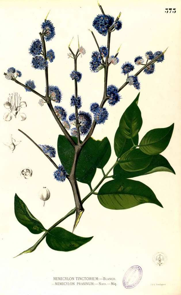 Plate from book